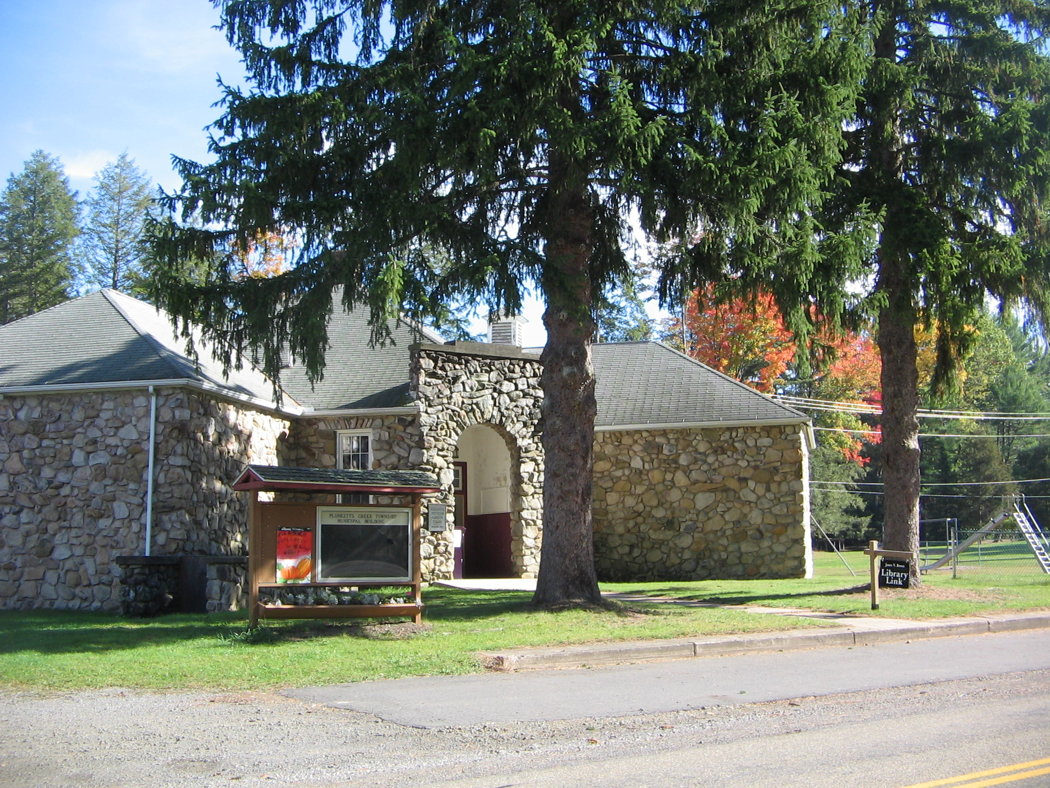 Plunketts Creek Township Building (also Branch Library, former Elementary School) in Barbours in Plunketts Creek Township, Lycoming County, Pennsylvania, United States